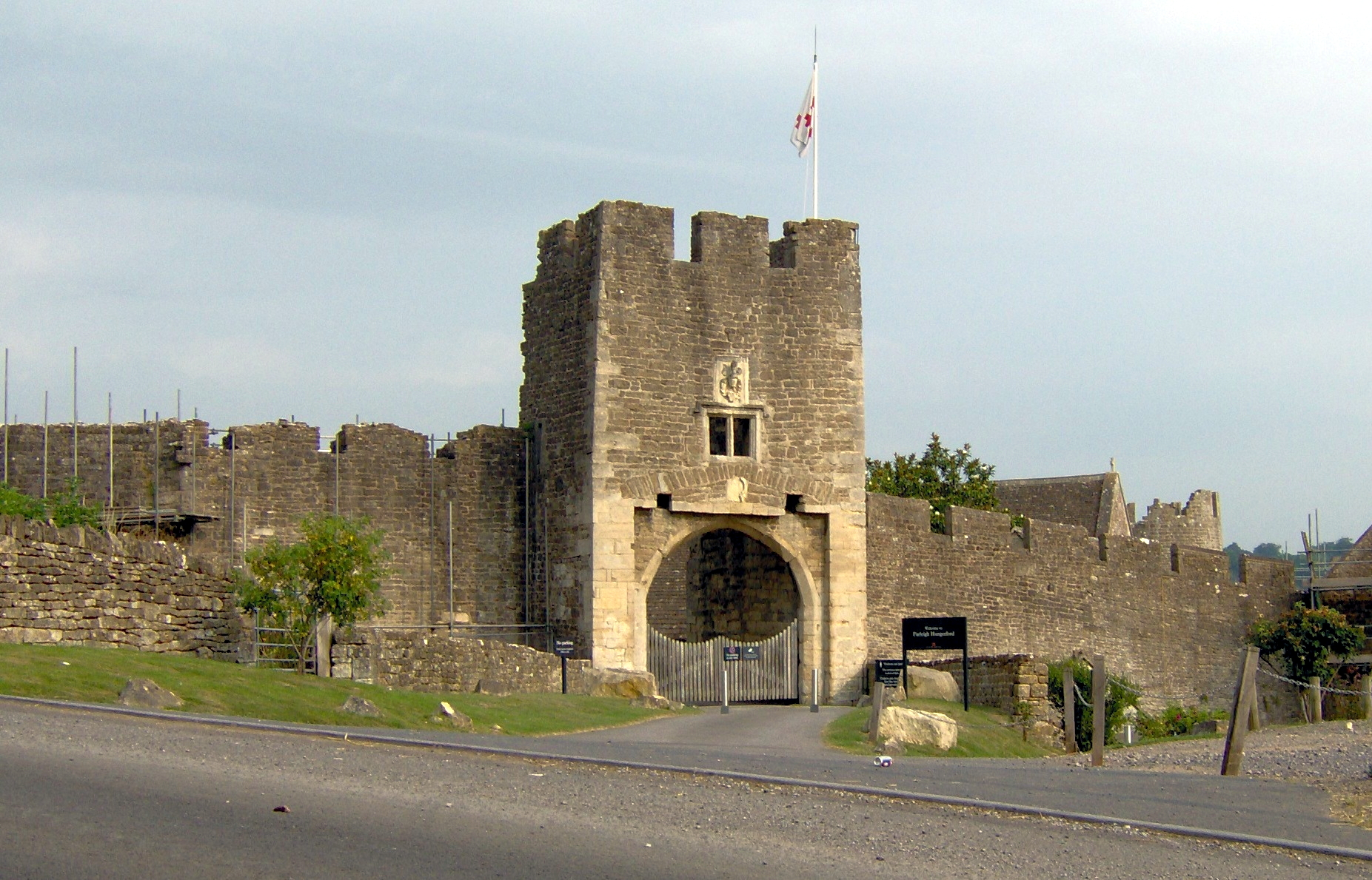 Farleigh Hungerford Castle (gatehouse). Taken by Rod Ward 22nd July 2006